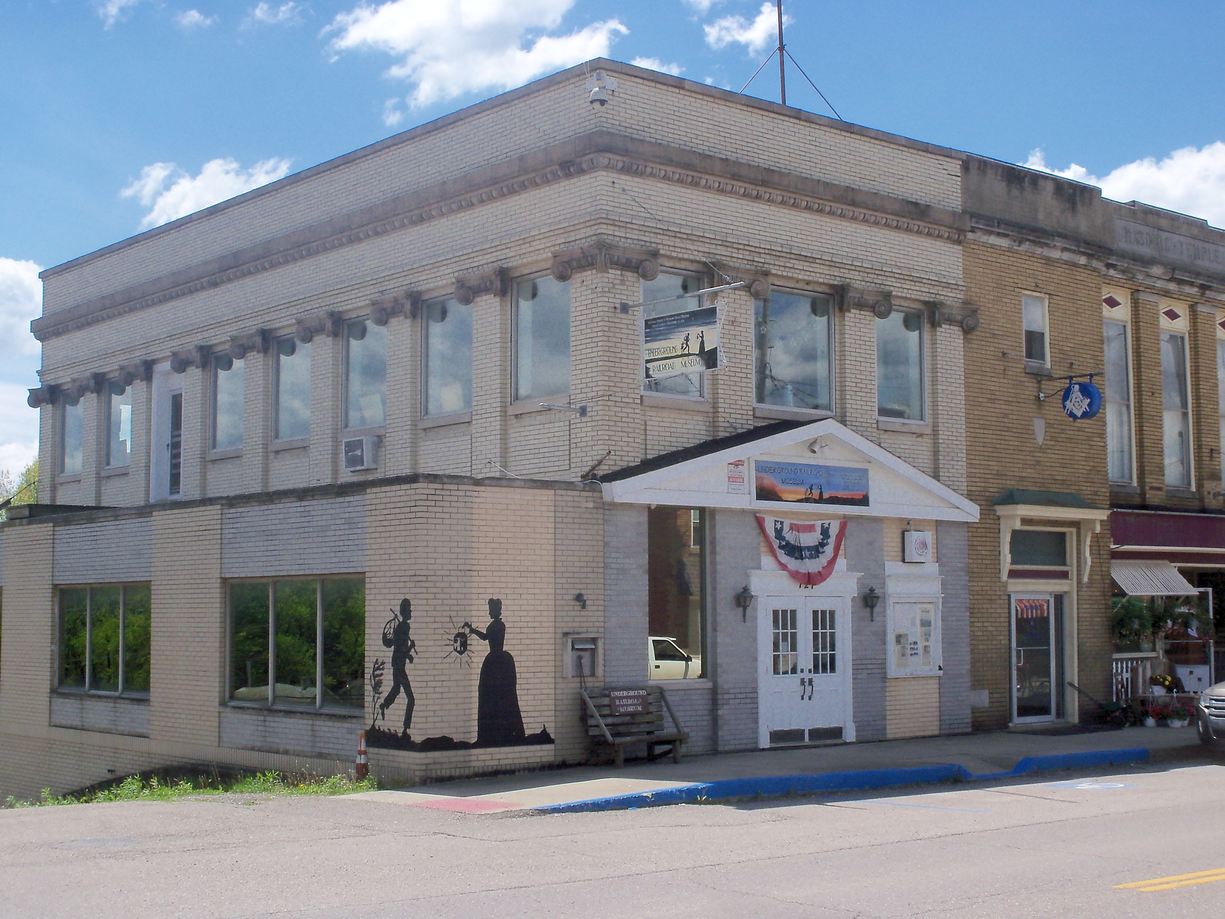 Underground Railroad Museum in downtown Flushing, Ohio